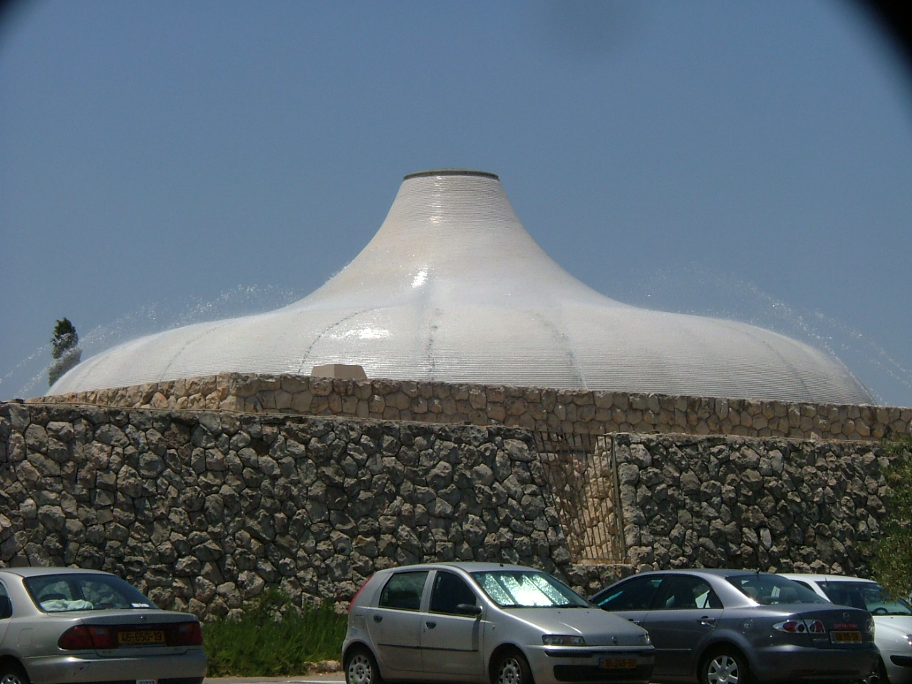 The Shrine of the Book, Israel Museum, Jerusalem.